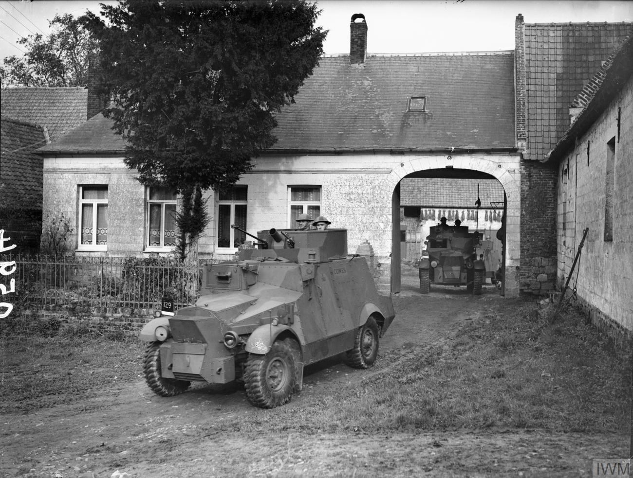 The British Army in France 1939-40 Morris CS9 armoured cars of 'C' Squadron, 12th Royal Lancers (Prince of Wales' Own) at Villiers St Simon, 29 September 1939.